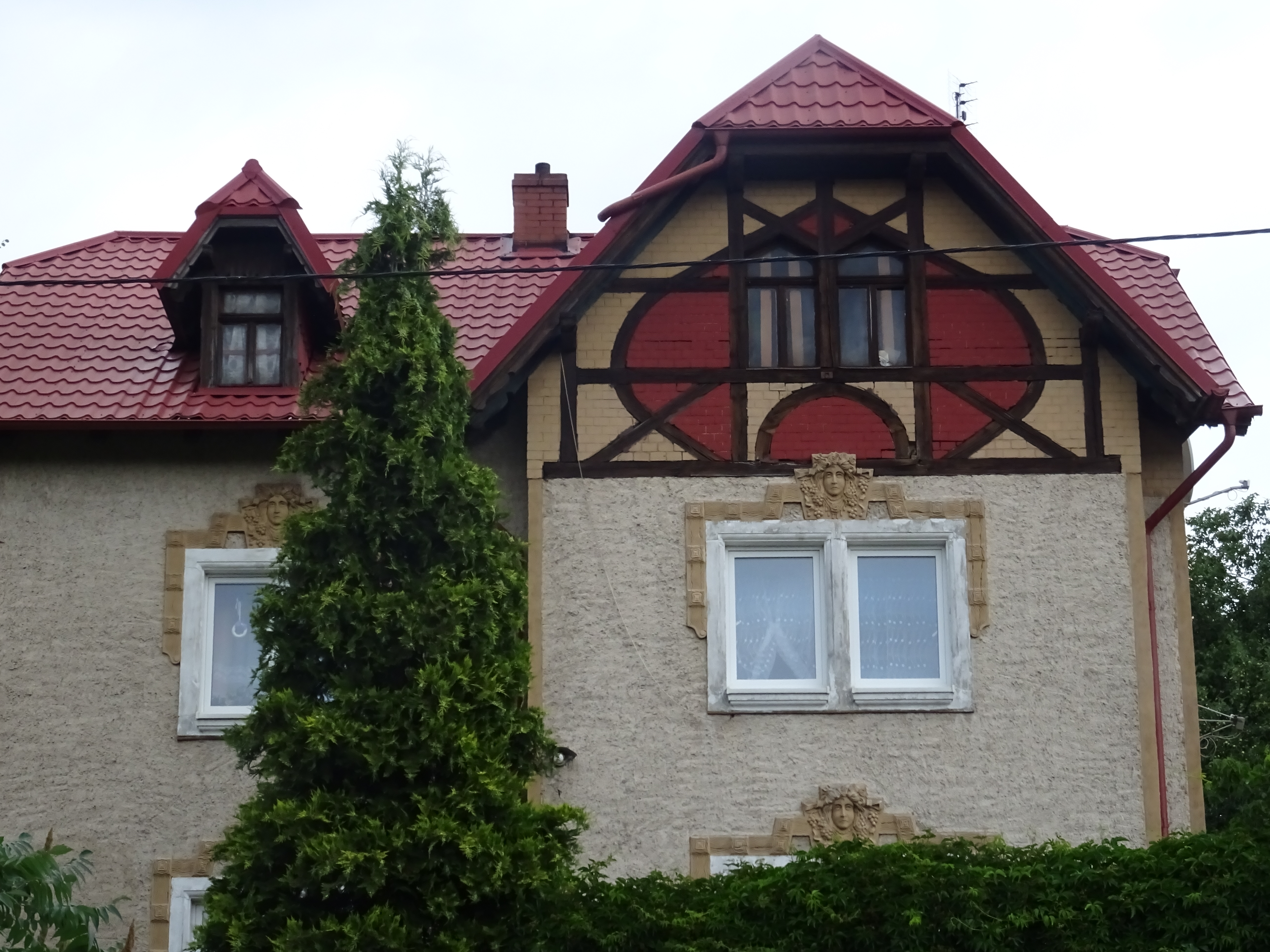 This photograph was created as a part of Wikiexpedition Lower Silesia, a project supported by Wikimedia Poland grant.